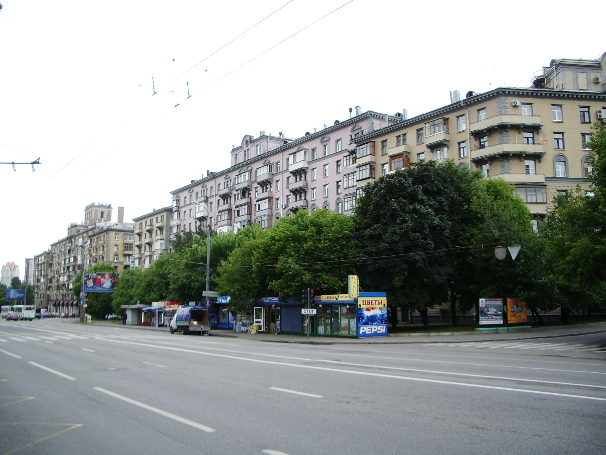 Alabana street 10. Moscow.